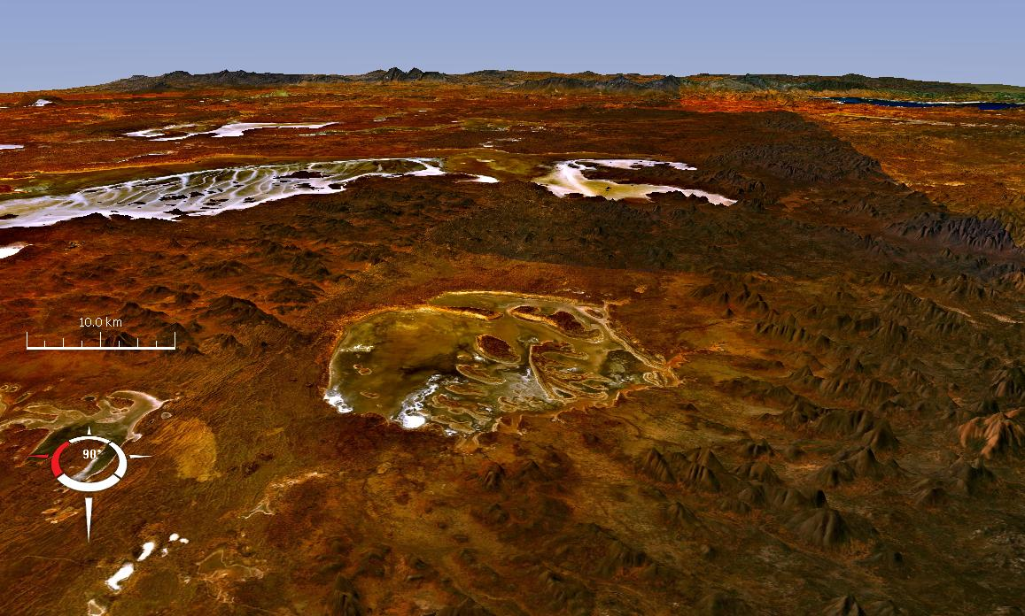 Lake Acraman (impact crater) in South Australia. Oblique Landsat image drapped over digital elevation model, looking east towards Flinders Ranges, 10x vertical exaggeration.